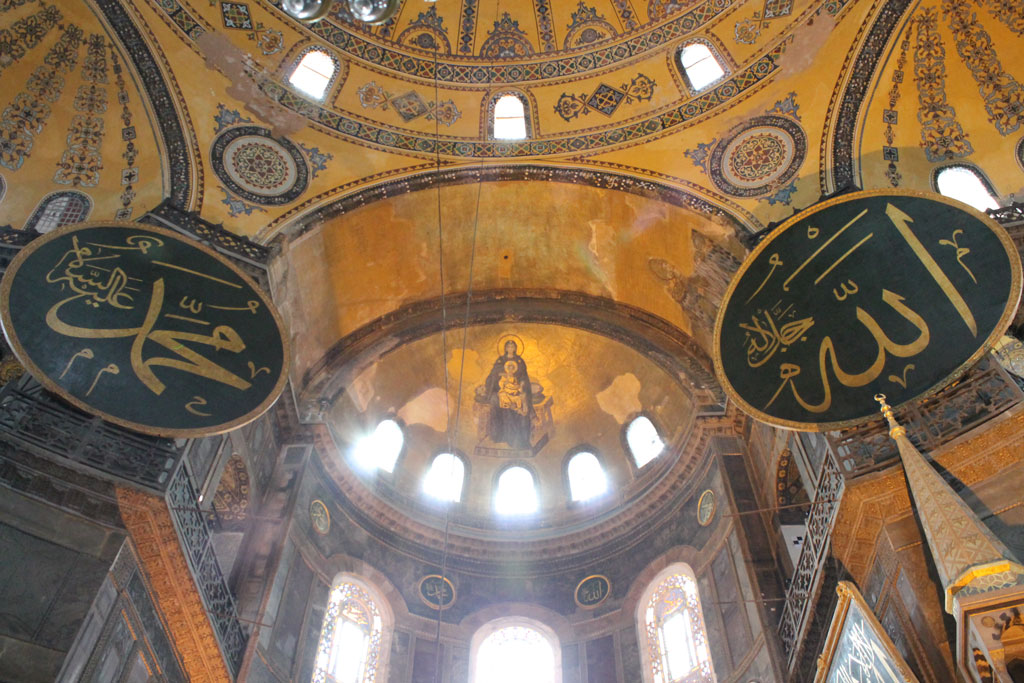 Interior view of one of the domes located at the corners of the Hagia Sophia, the inscriptions inside the circles are the names of islamic religious characters.